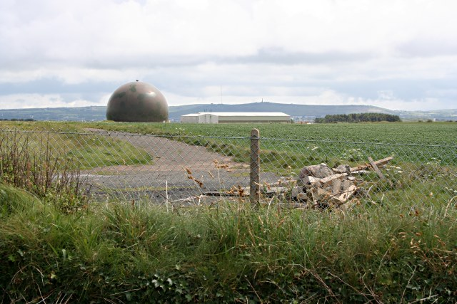 The Dome at RAF Portreath No I don't know what is inside it either but it is quite a landmark, visible for miles around.